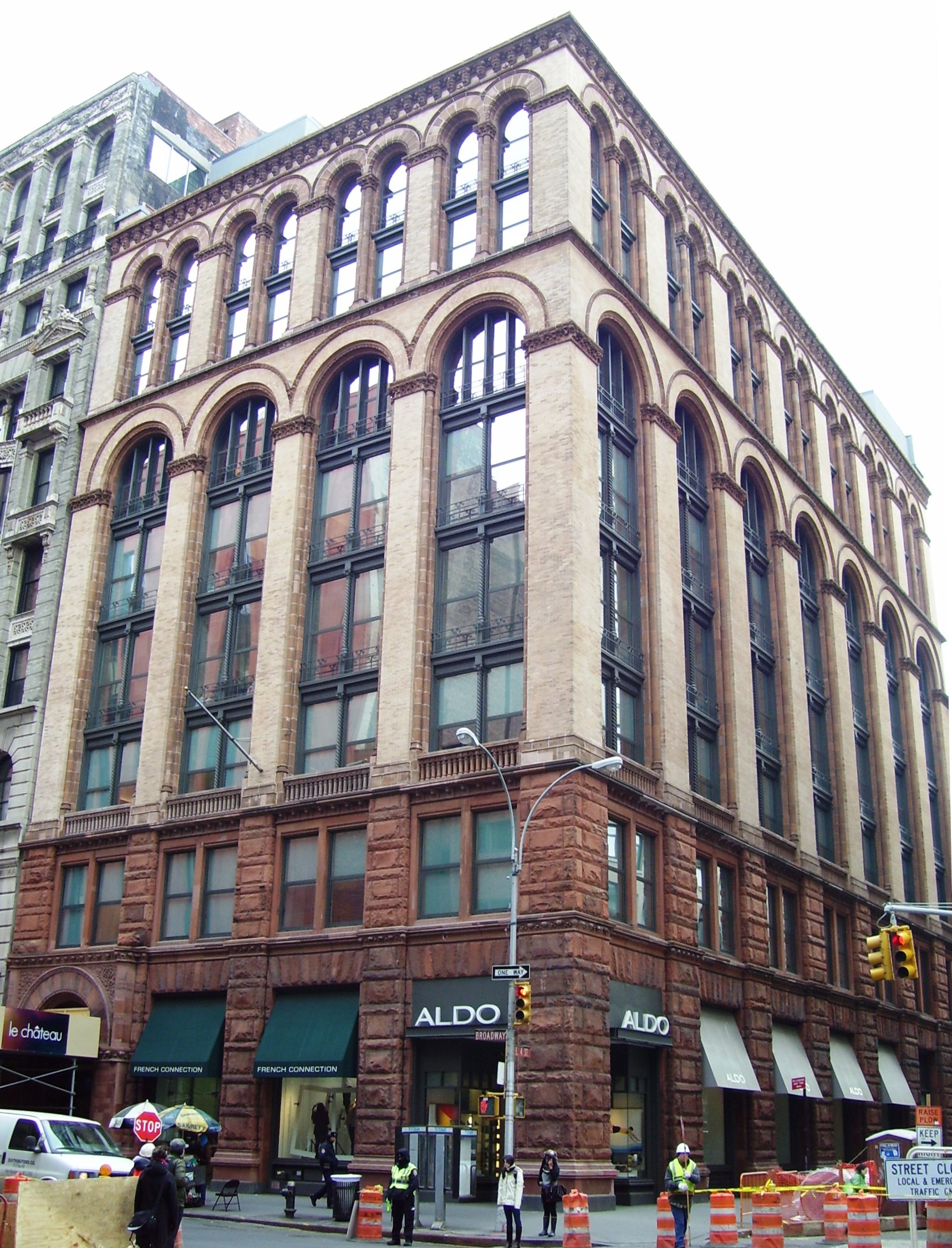 700 Broadway (lots 696-701), at West 4th Street in the NoHo neighborhood of Manhattan, New York City, was built in 1890-1891 as the Schermerhorn Building, and was later Audubon House, headquarters o the Audubon Society. It was designed by George B. Post, and is an early example of a steel-framed skyscraper. It is located in the NoHo Historic District. {Source: Guide to NYC Landmarks (4th ed.))